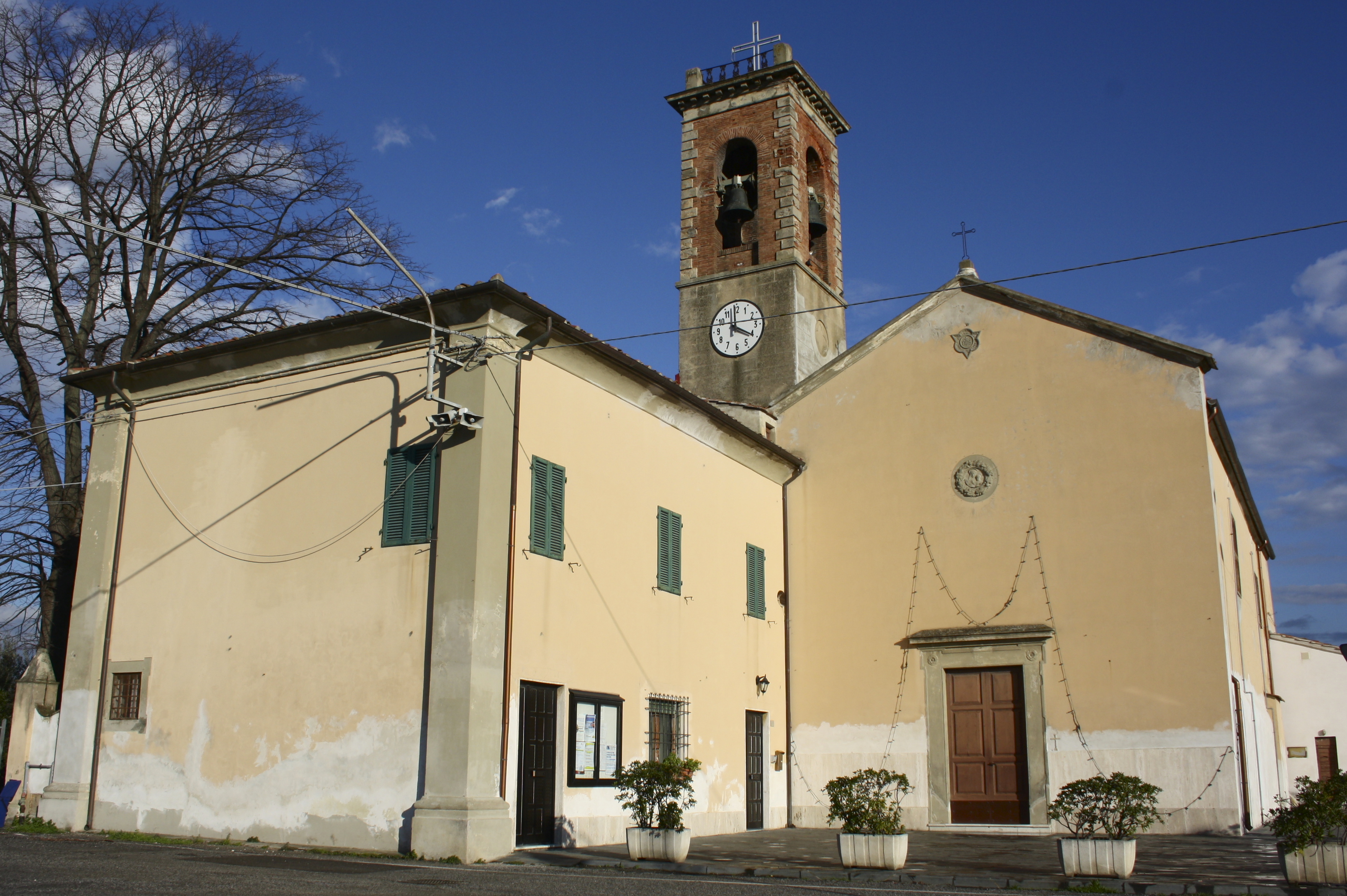 Church San Michele Arcangelo, Marciana Maggiore, Marciana, hamlet of Cascina, Province of Pisa, Tuscany, Italy